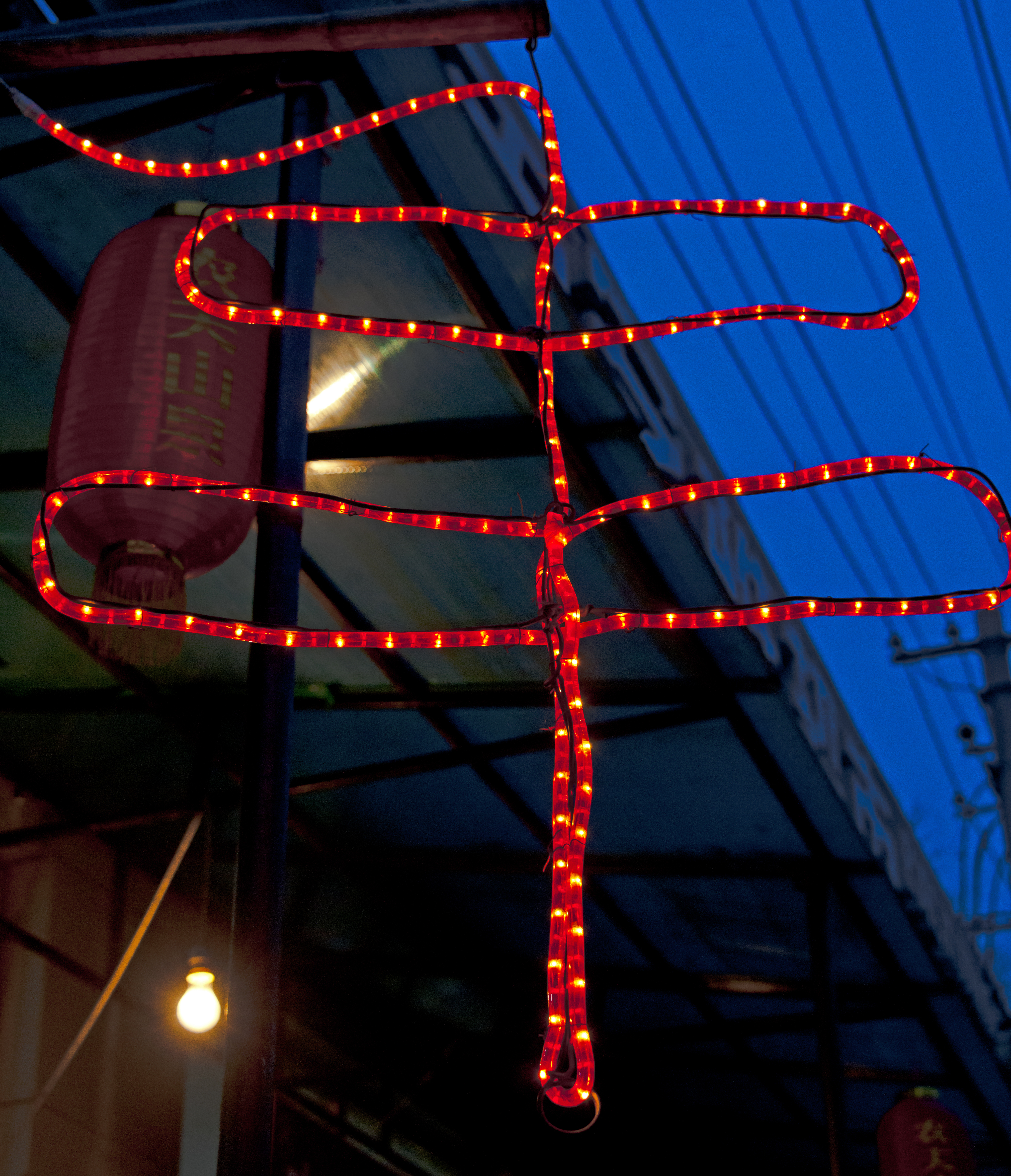 LED sign in the shape of the Chinese character for chuan'r hanging in front of a Beijing shop